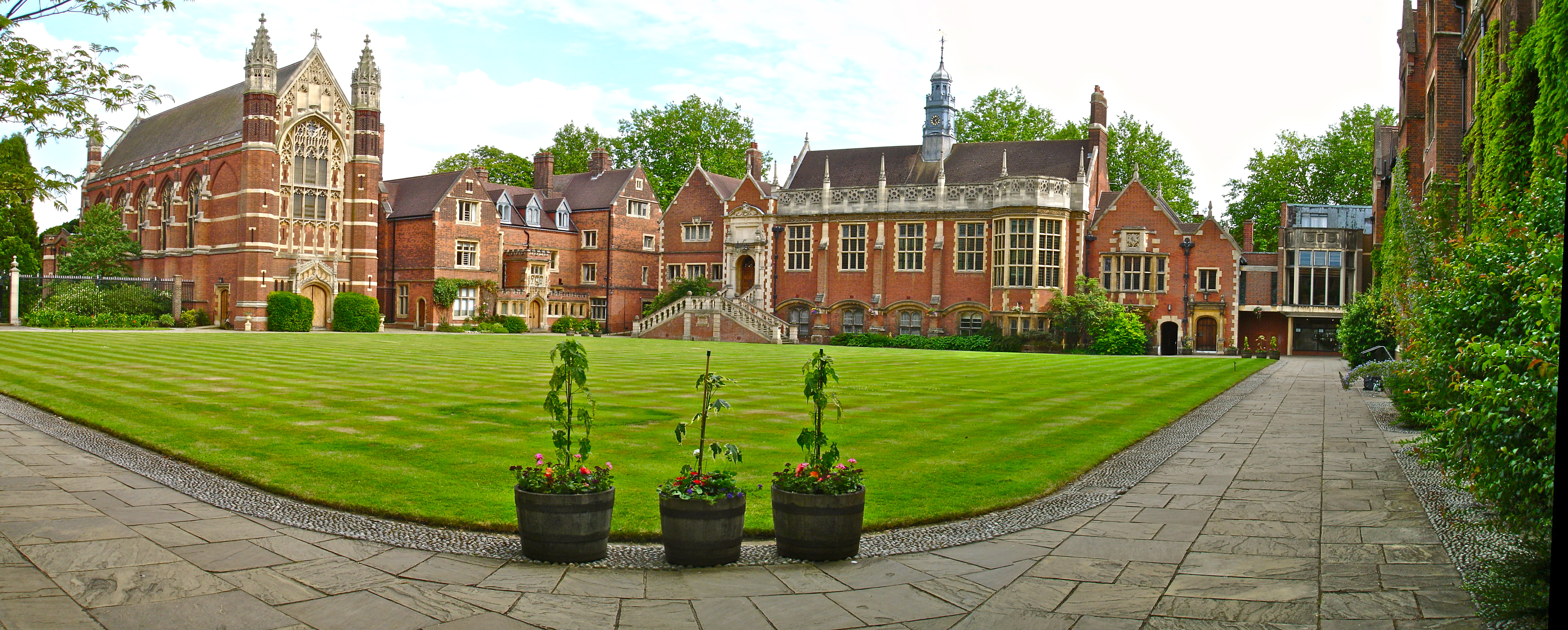 Panorama of Selwyn College Old Court from North-West corner.